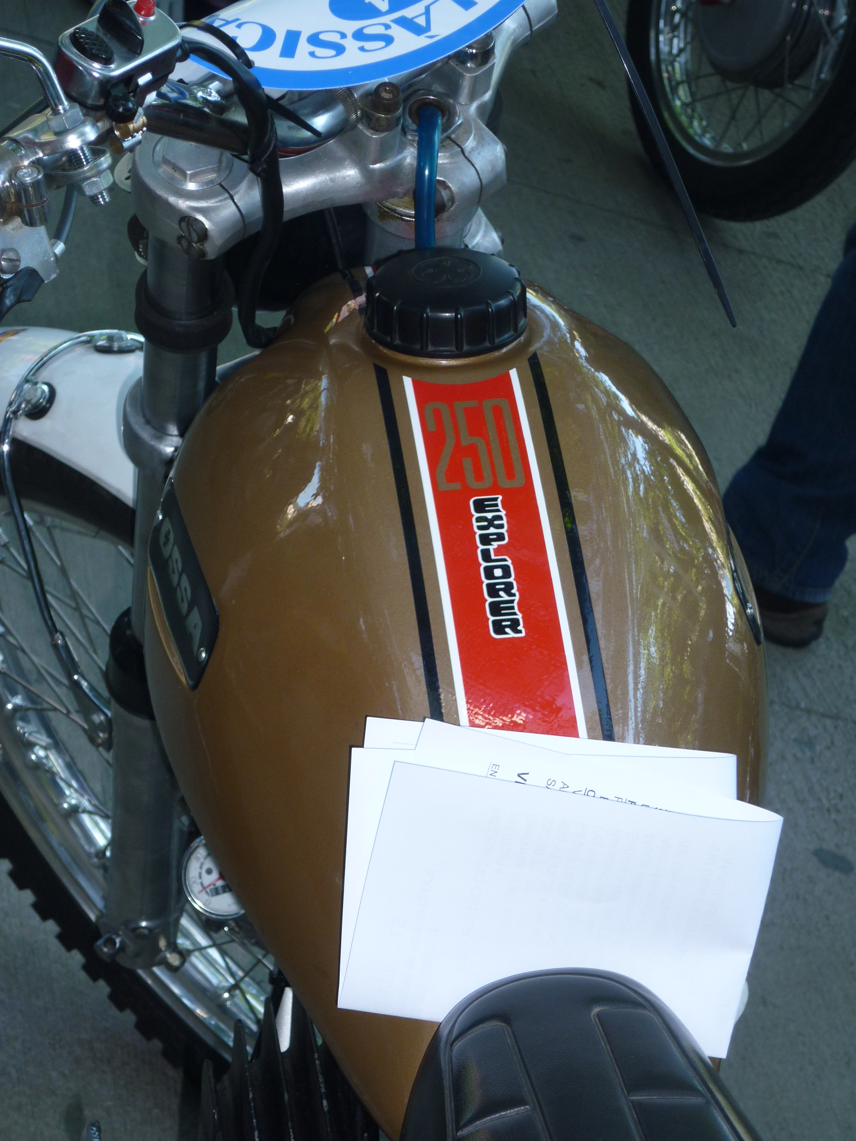 The fuel tank of a Ossa Explorer 250, 1973